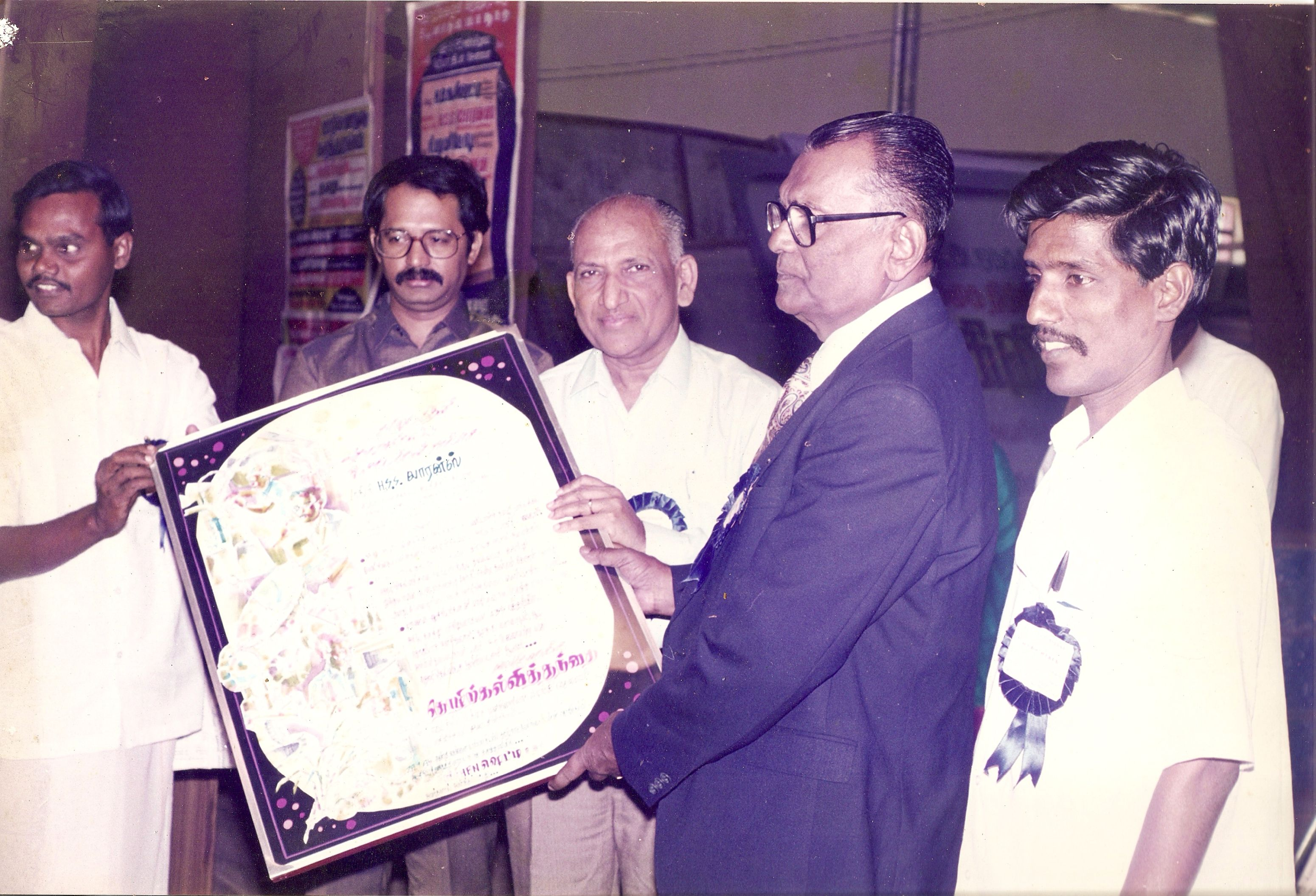 Dr.H.S.S. Lawrence receiving the citation Father of Vocational Education in TamilNadu